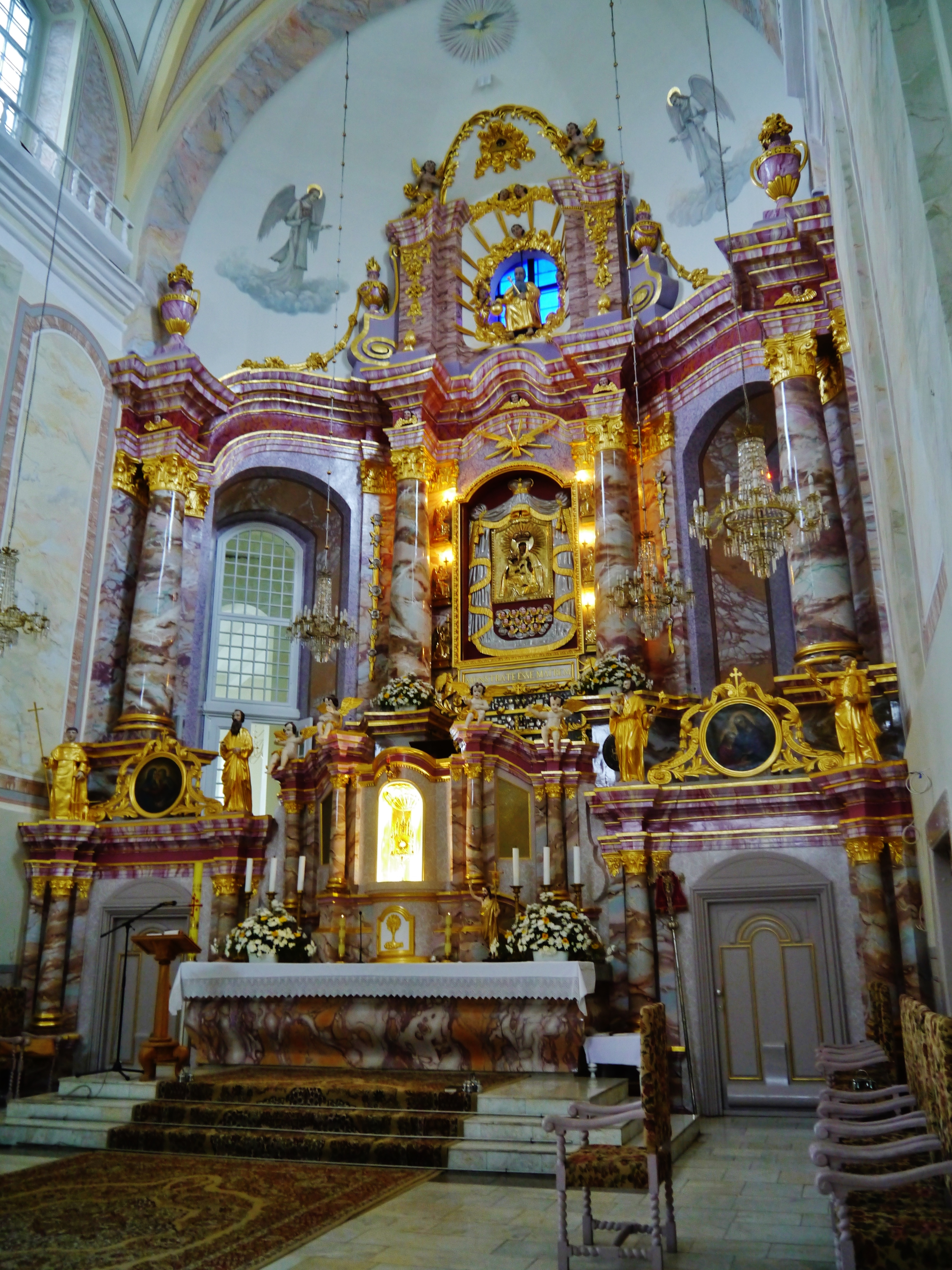 High Altar of the Basilica, Aglona, Latvia